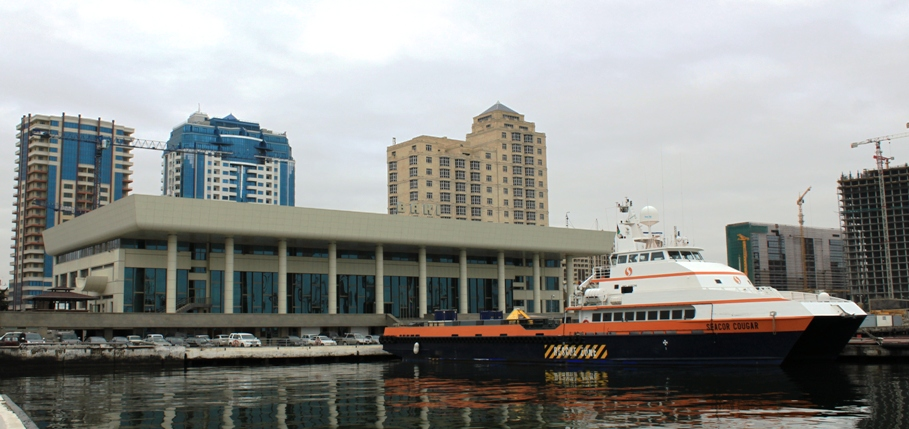 Ship in port Baku Azerbaijan